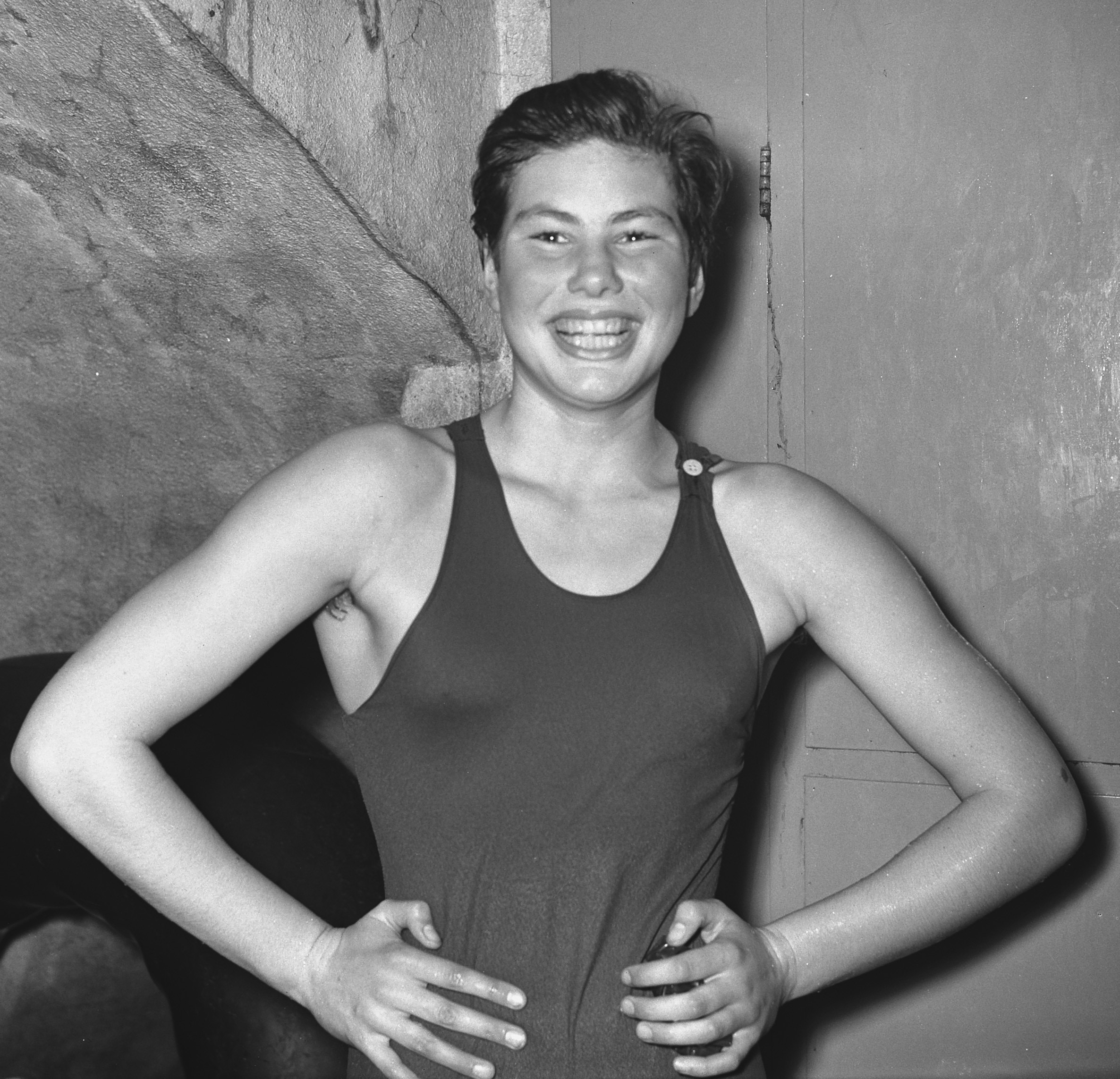 Ada den Haan